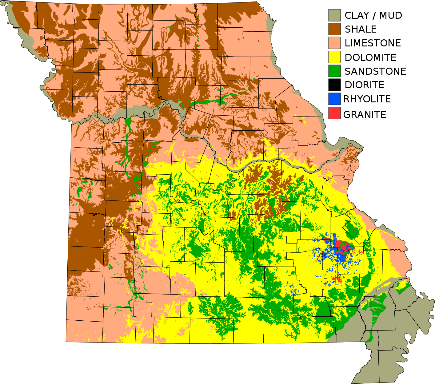 Geologic map Missouri primary rock types. Based on data from the Missouri Spatial Data Information Service. Polyconic projection on meridian 92.5° west.